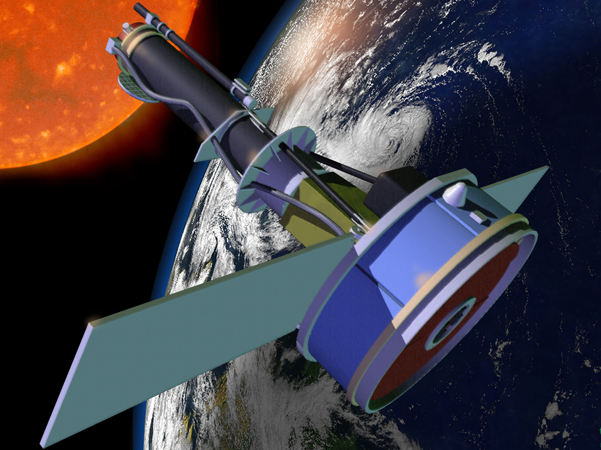 Artist's concept of the Interface Region Imaging Spectrograph, or IRIS, satellite in orbit.